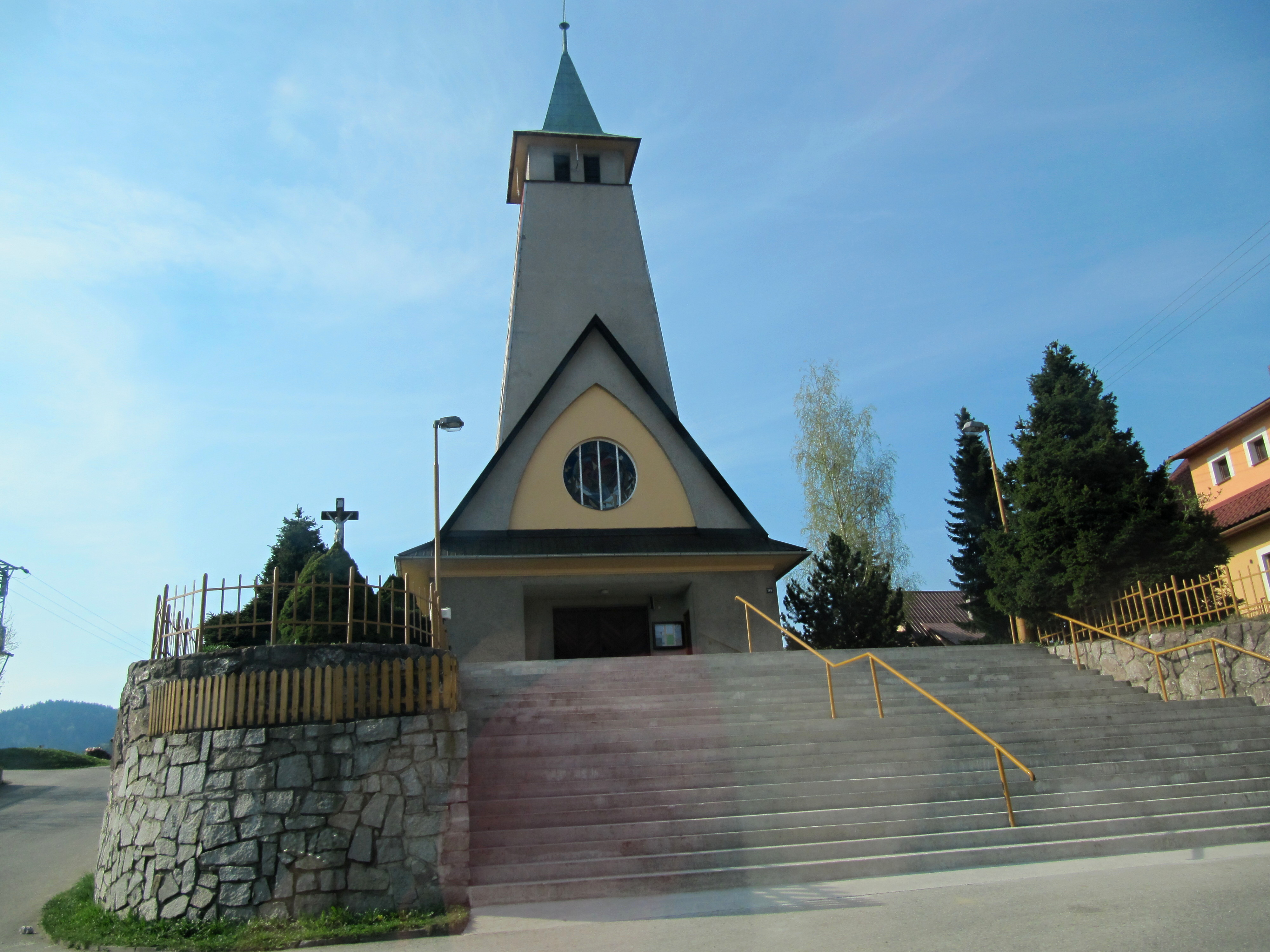 Střelná in Vsetín District, Czech Republic. Church of the Virgin Mary Assumpted.